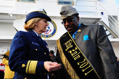 King Zulu at Lundi Gras, New Orleans.